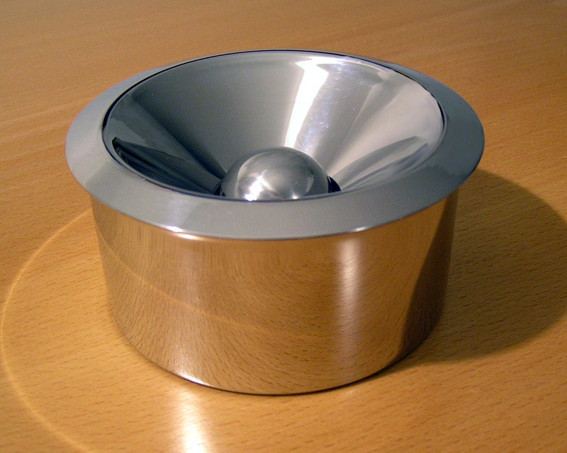 Bauhaus Ashtray designed by Marianne Brandt in 1926